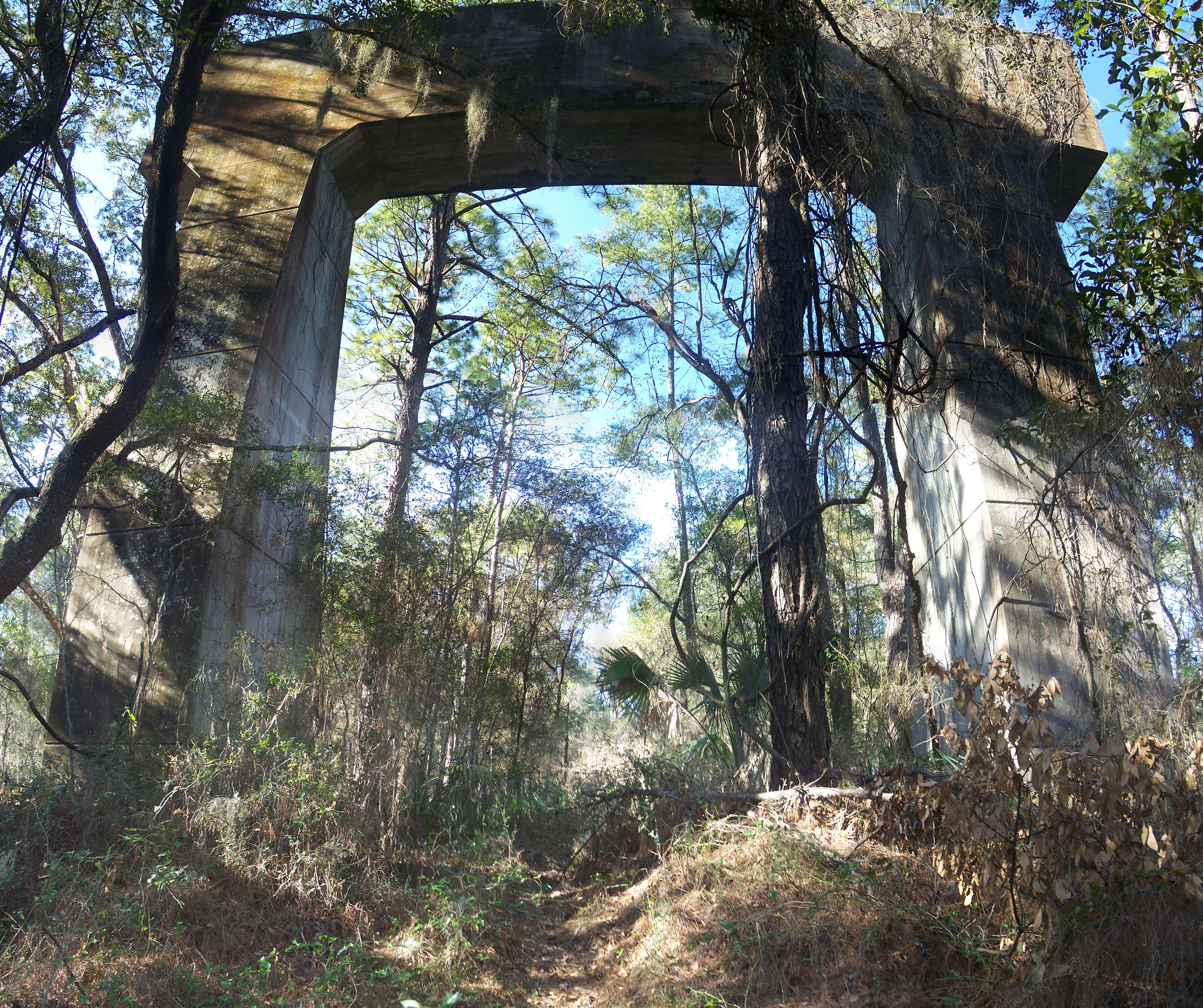 Marion County, Florida: Cross Florida Barge Canal: One of the supports for the bridge over the Canal. The bridge was never completed, since the building of the canal was stopped. This structure is in a grassy median on US 441 in Santos, behind the County Sheriff's station.